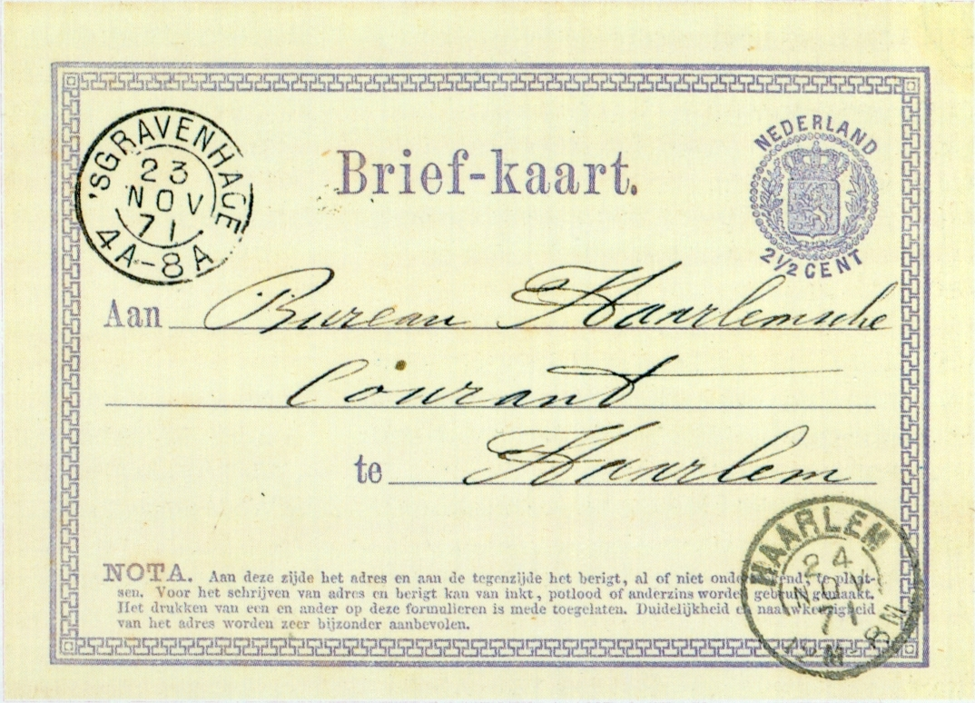 First Dutch postal card (G1)